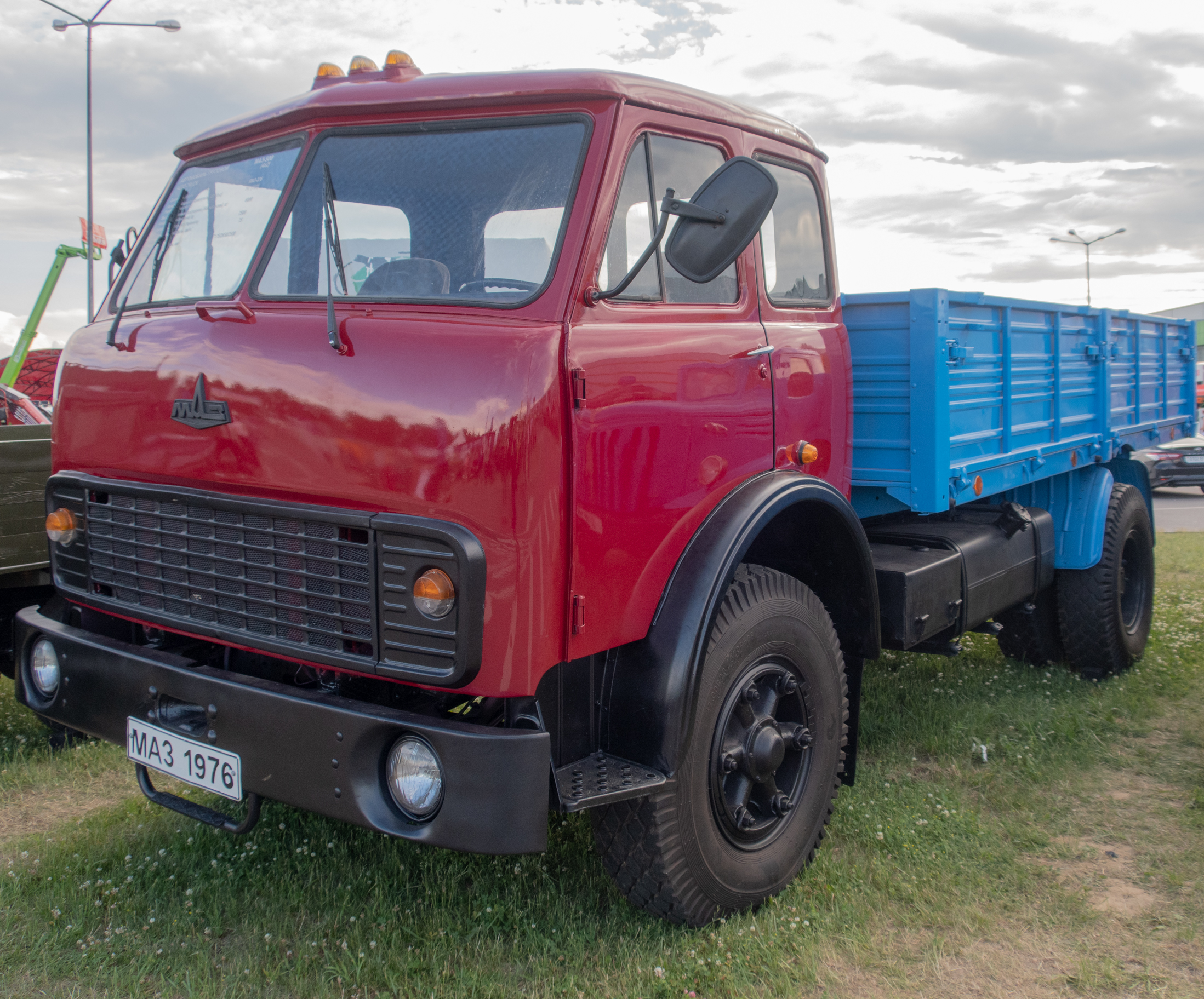 MAZ-500. Photo taken at Belagro-2019 exhibition (Minsk district, Belarus)